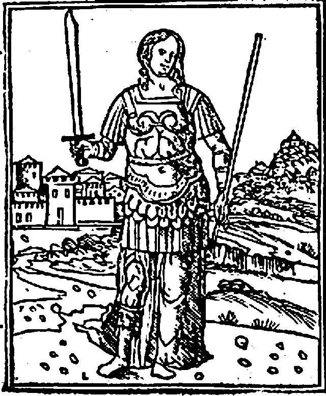 Semiramis, the semi-legendary Mesopotamian queen. Illsutration from an eighteenth century book Semmiramide Regina di Babillone.